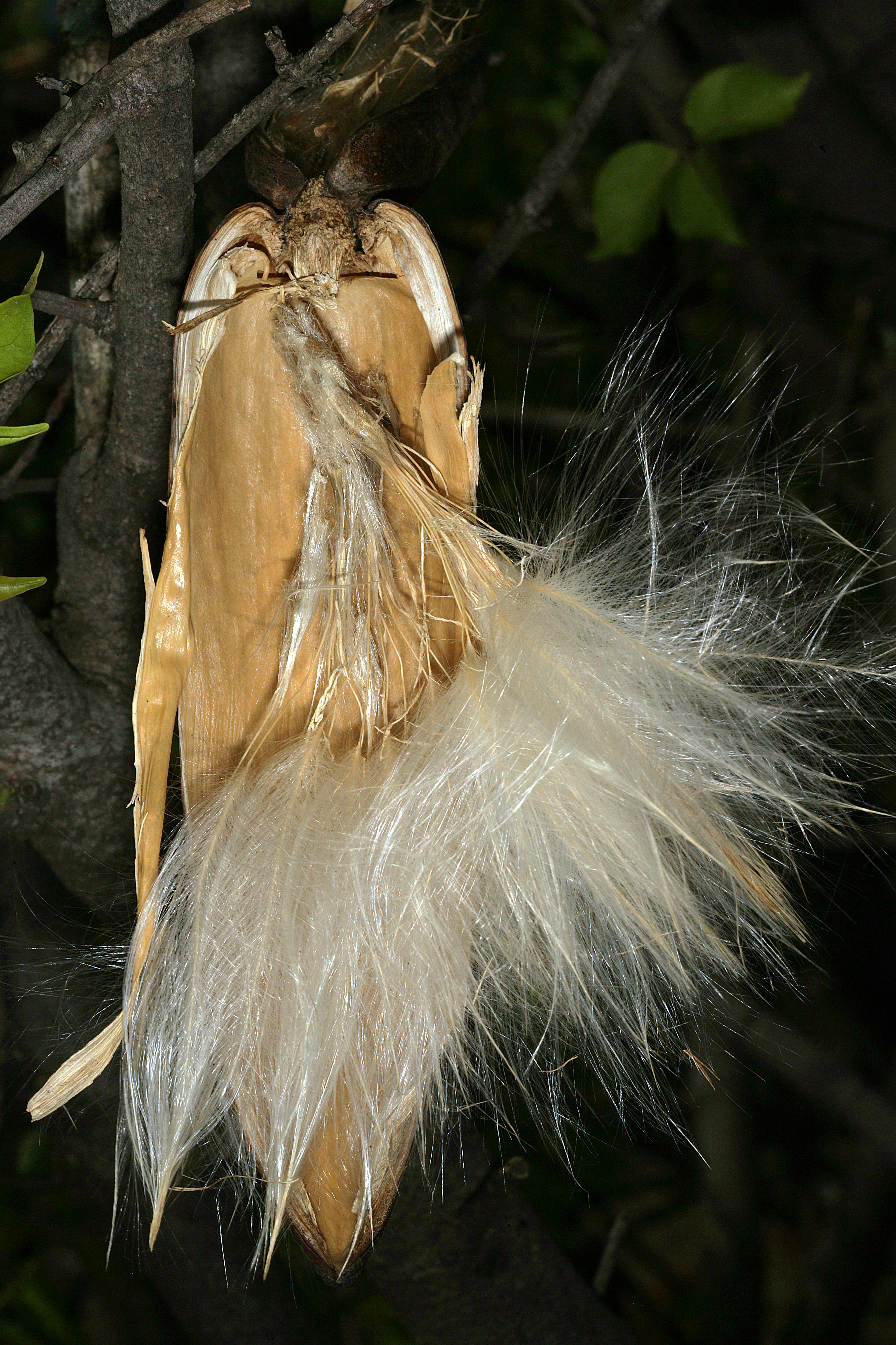 Strophanthus amboensis, dehisced fruit, showing seeds tipped by a feathery plume of silky hairs. Pretoria National Botanical Garden, Pretoria, Gauteng, South Africa